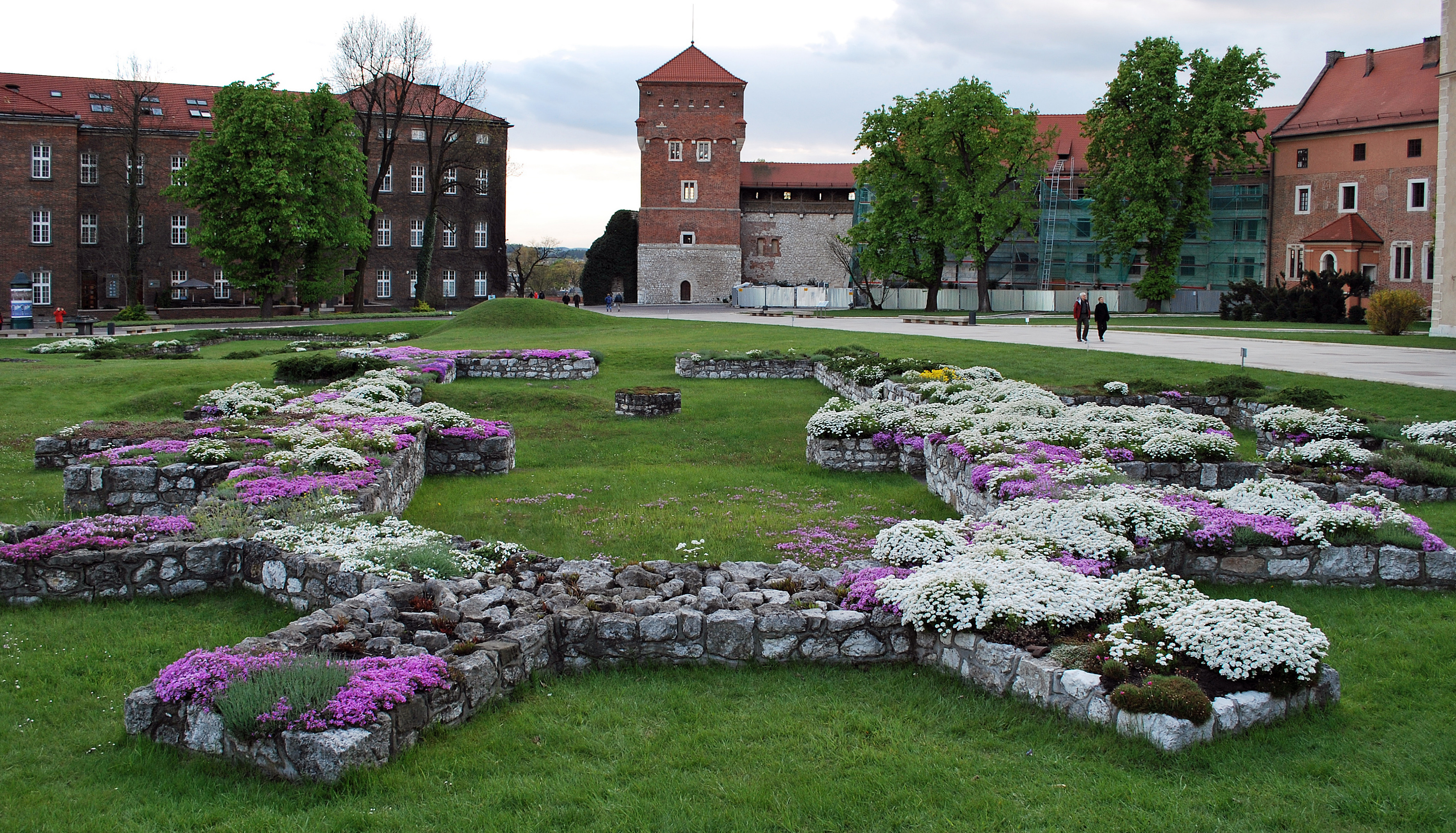 Former St. Michael church, Wawel hill, Old Town, Kraków, Poland